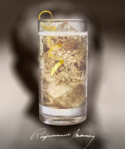 Picture of Raymond Massey cocktail